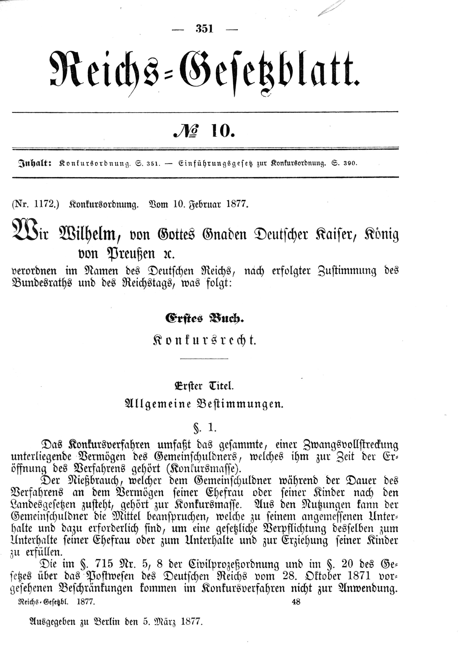 Scan from the Imperial Law Gazette of Germany, 1877